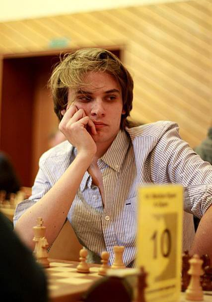 Adrien Demuth au Neckar Open 2013 (Allemagne)